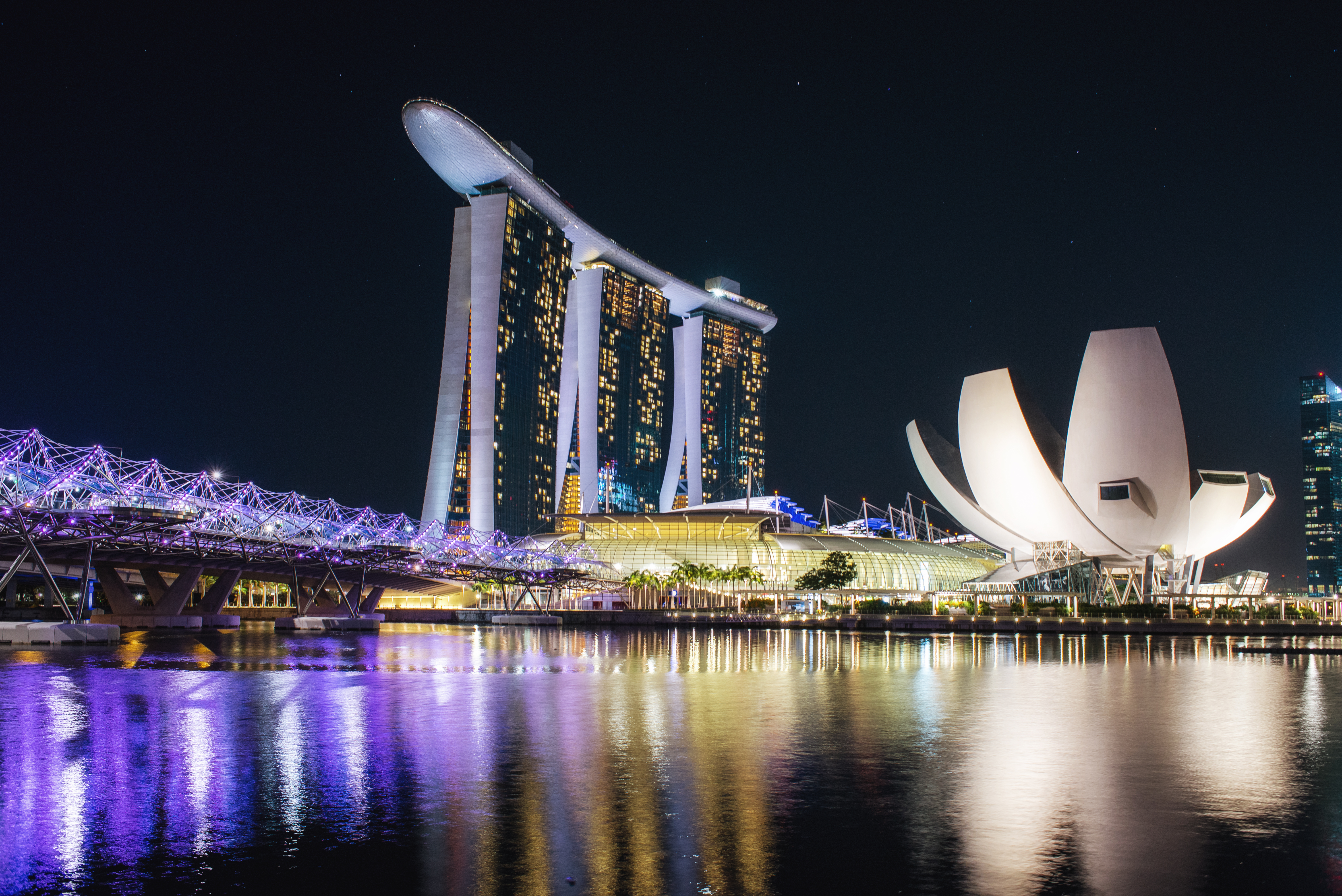 Marina Bay Sands, Singapore, at night.